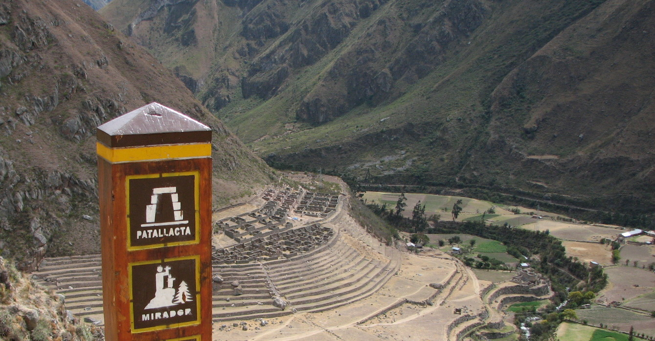 Llactapata viewed from above on the Inca trail.